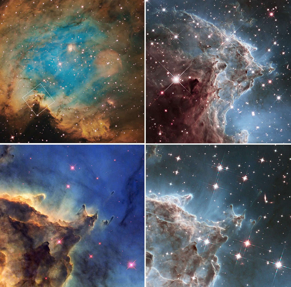 In celebration of the 24th anniversary of the launch of NASA's Hubble Space Telescope, astronomers have captured infrared-light images of a churning region of star birth 6,400 light-years away. The collection of images reveals a shadowy, dense knot of gas and dust sharply contrasted against a backdrop of brilliant glowing gas in the Monkey Head Nebula (also known as NGC 2174 and Sharpless Sh2-252). The image demonstrates Hubble's powerful infrared vision and offers a tantalizing hint of what scientists can expect from the upcoming James Webb Space Telescope. Observations of NGC 2174 were taken in February, 2014. Massive newborn stars near the center of the nebula (and toward the right in this image) are blasting away at dust within the nebula. The ultraviolet light emitted by these bright stars helps shape the dust into giant pillars. This carving action occurs because the nebula is mostly composed of hydrogen gas, which becomes ionized by the ultraviolet radiation. As the dust particles are warmed by the ultraviolet light of the stars, they heat up and begin to glow at infrared wavelengths. The Hubble Space Telescope is a project of international cooperation between NASA and the European Space Agency. NASA's Goddard Space Flight Center in Greenbelt, Md., manages the telescope. The Space Telescope Science Institute (STScI) in Baltimore conducts Hubble science operations. STScI is operated for NASA by the Association of Universities for Research in Astronomy, Inc., in Washington. For images and more information about Hubble, visit: NASA image use policy. NASA Goddard Space Flight Center enables NASA’s mission through four scientific endeavors: Earth Science, Heliophysics, Solar System Exploration, and Astrophysics. Goddard plays a leading role in NASA’s accomplishments by contributing compelling scientific knowledge to advance the Agency’s mission. Follow us on Twitter Like us on Facebook Find us on Instagram